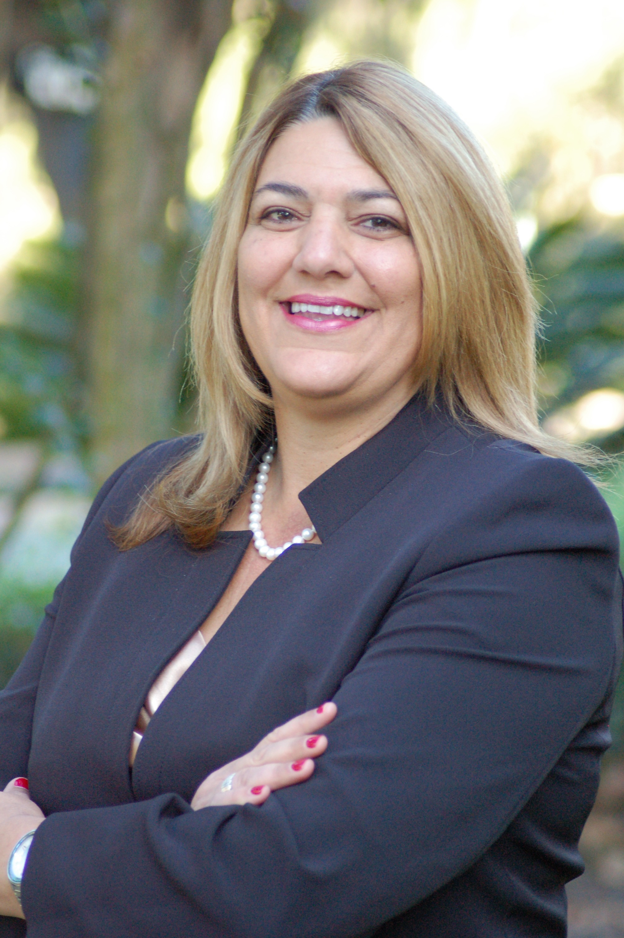 Chancellor Madeline Pumariega